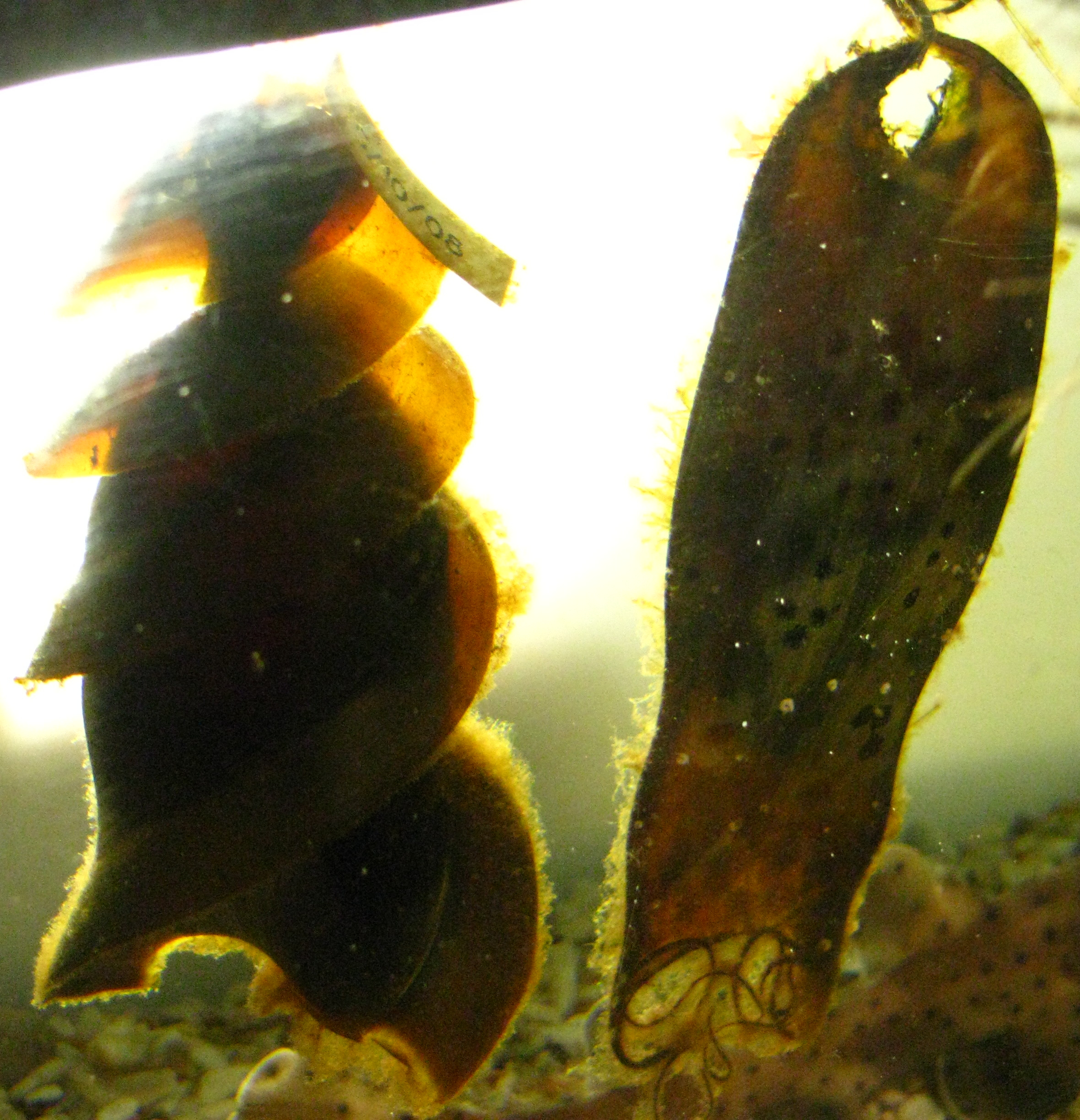 Egg capsules of the horn shark (Heterodontus francisci) on the left, and the swellshark (Cephaloscyllium ventriosum) on the right, at the Birch Aquarium in San Diego.